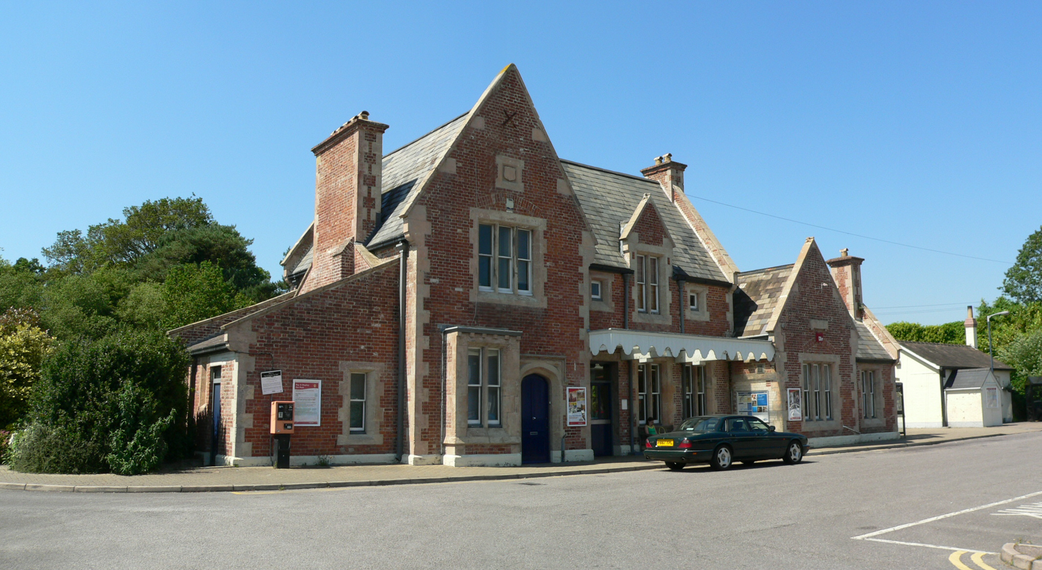 A merged view of the front of the station building at Axminster railway station in East Devon. Opened on 19 July 1890 the station currently only has one platform, but between 1903 and the Beeching axe of the 1960s it was the start of the branch line to Lyme Regis.